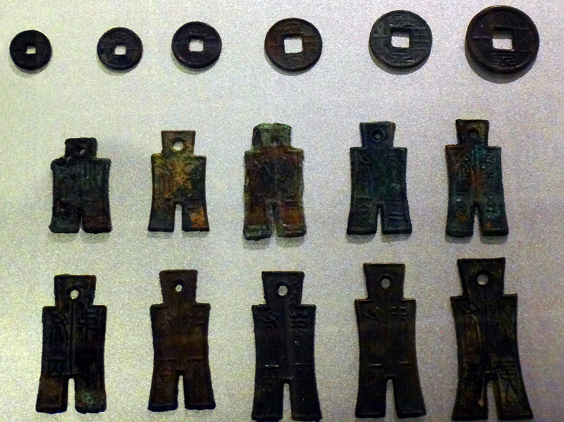 The 16 coins of the Xin Dynasty. The denominations of the 6 round coins are 1, 10, 20, 30, 40 and 50;The denominations of the 10 spade coins are 100, 200, 300, 400, 500, 600, 700, 800, 900 and 1000.